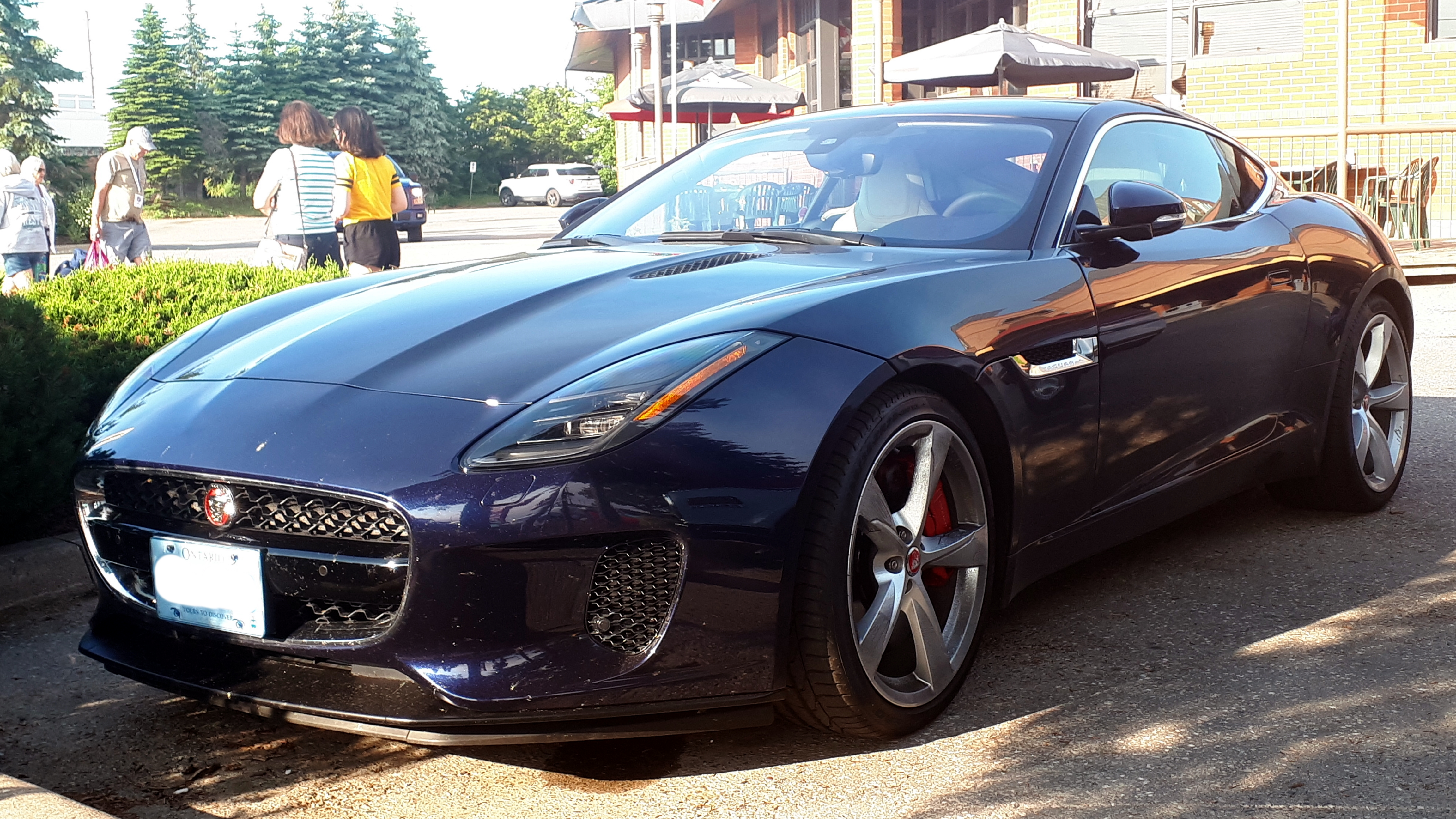 2018-2019 Jaguar F-Type photographed in Sault Ste. Marie, Ontario, Canada